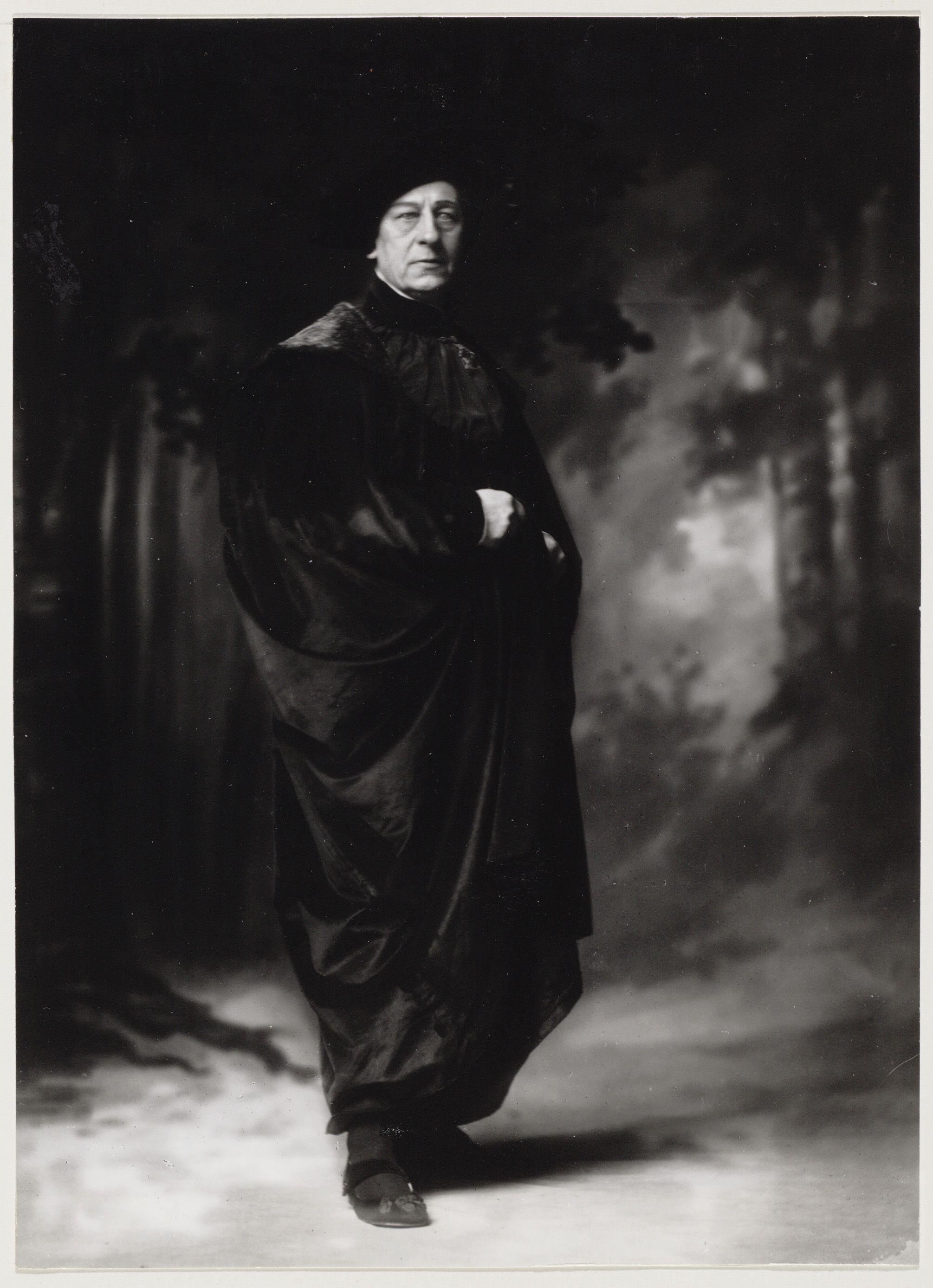 Dutch actor Willem Royaards as Faust. Photograph by Jacob Merkelbach (1877-1942)